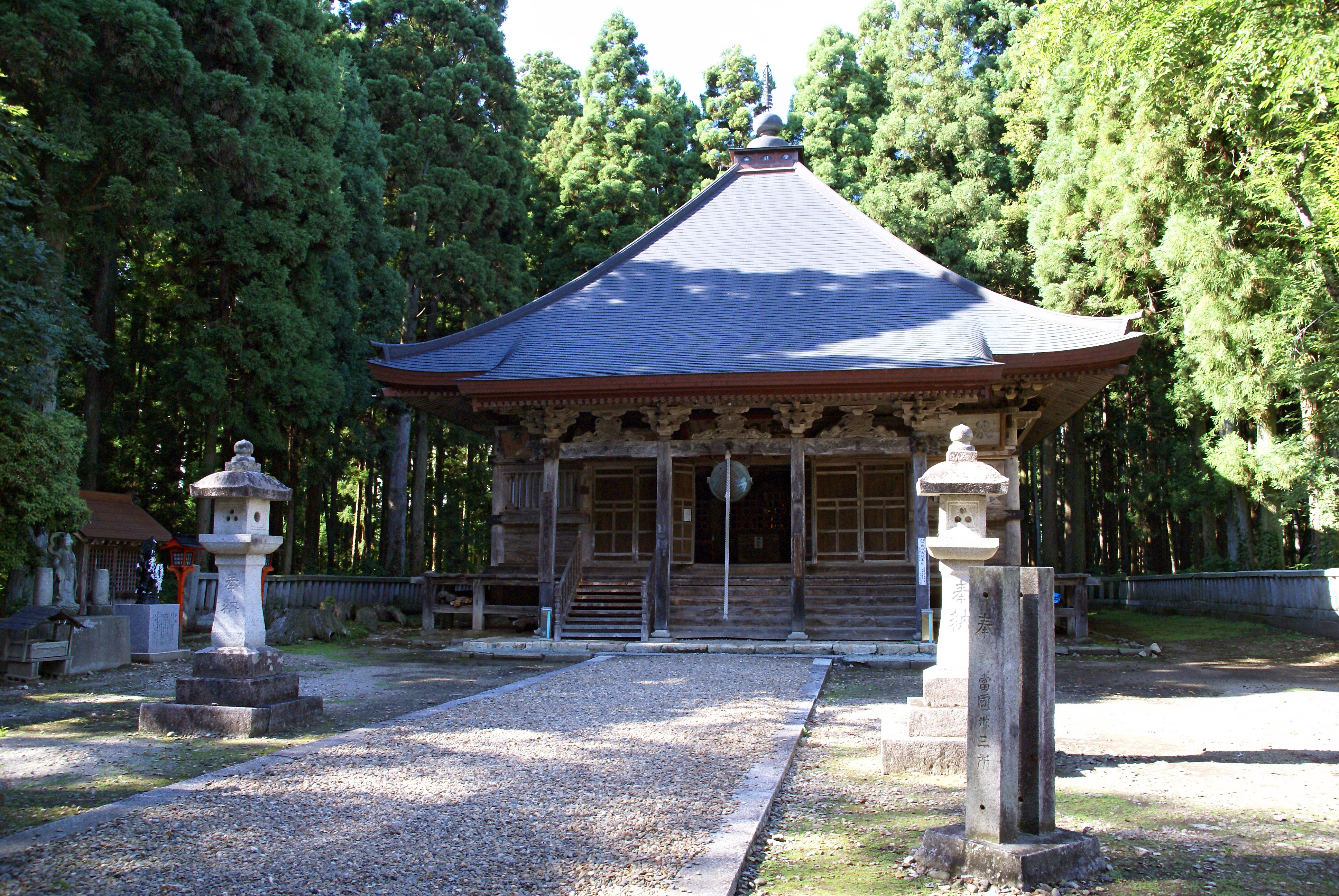 Kiyomizudera in Hanamaki, Iwate prefecture, Japan